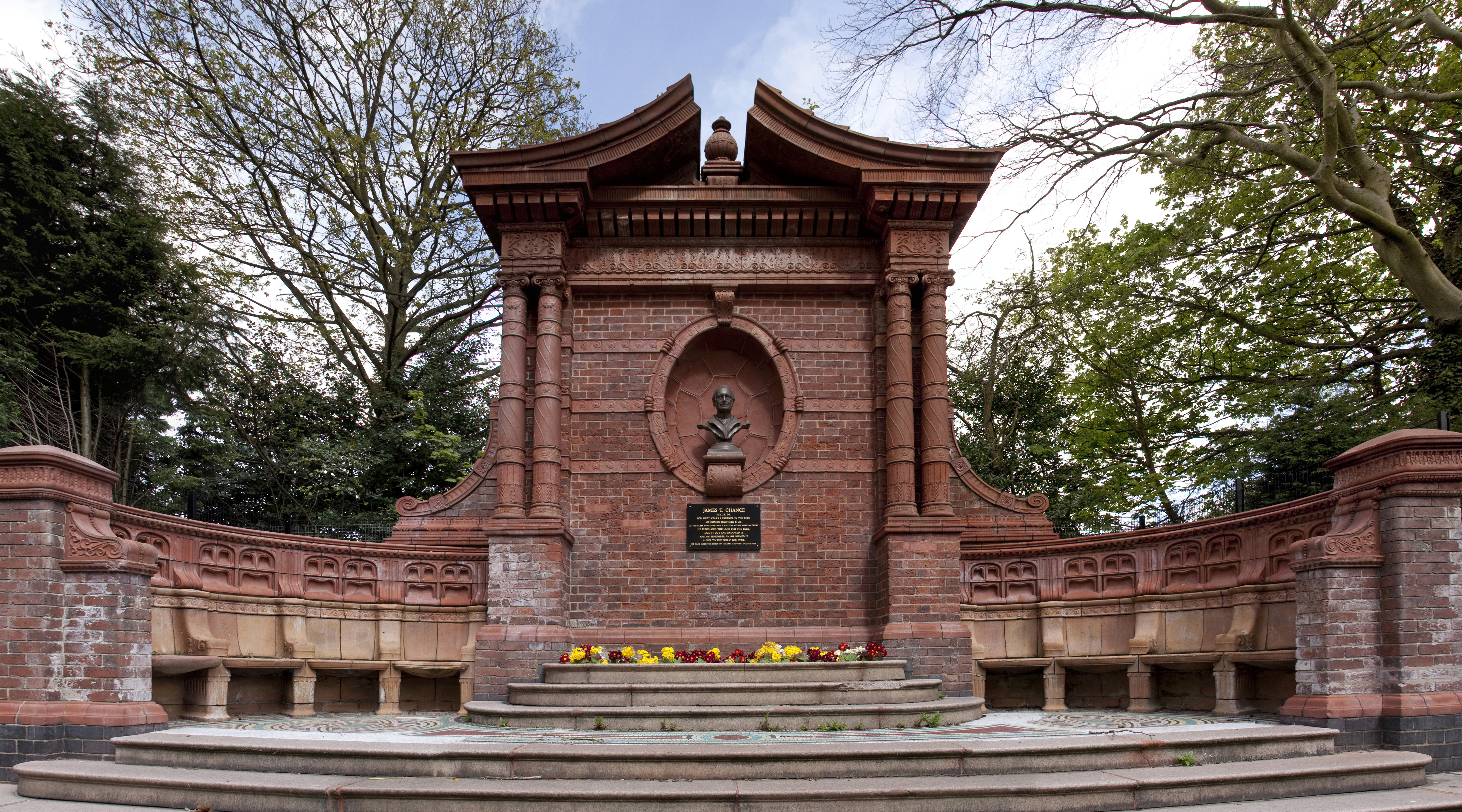 Memorial to James Chance, a partner in the massive Chance glass works in Smethwick and Oldbury. James Chance purchased the land for the park, which opened in 1895. This photo is a bit distorted because the monument is caged behind railings and to get this shot I had to take 6 shots between narrow railings and then try to stitch them together. Beneath the bust is a plaque reading: " James T. Chance M.A J.P. D.L. For fifty years a partner in the firm of Chance Brothers & Co. at the Glass Works Smethwick and the Alkali Works, Oldbury He purchased the land for the park, laid it out and endowed it and on September 7th 1895 opened it A gift to the public for ever. He also made the roads on its East and West boundaries."